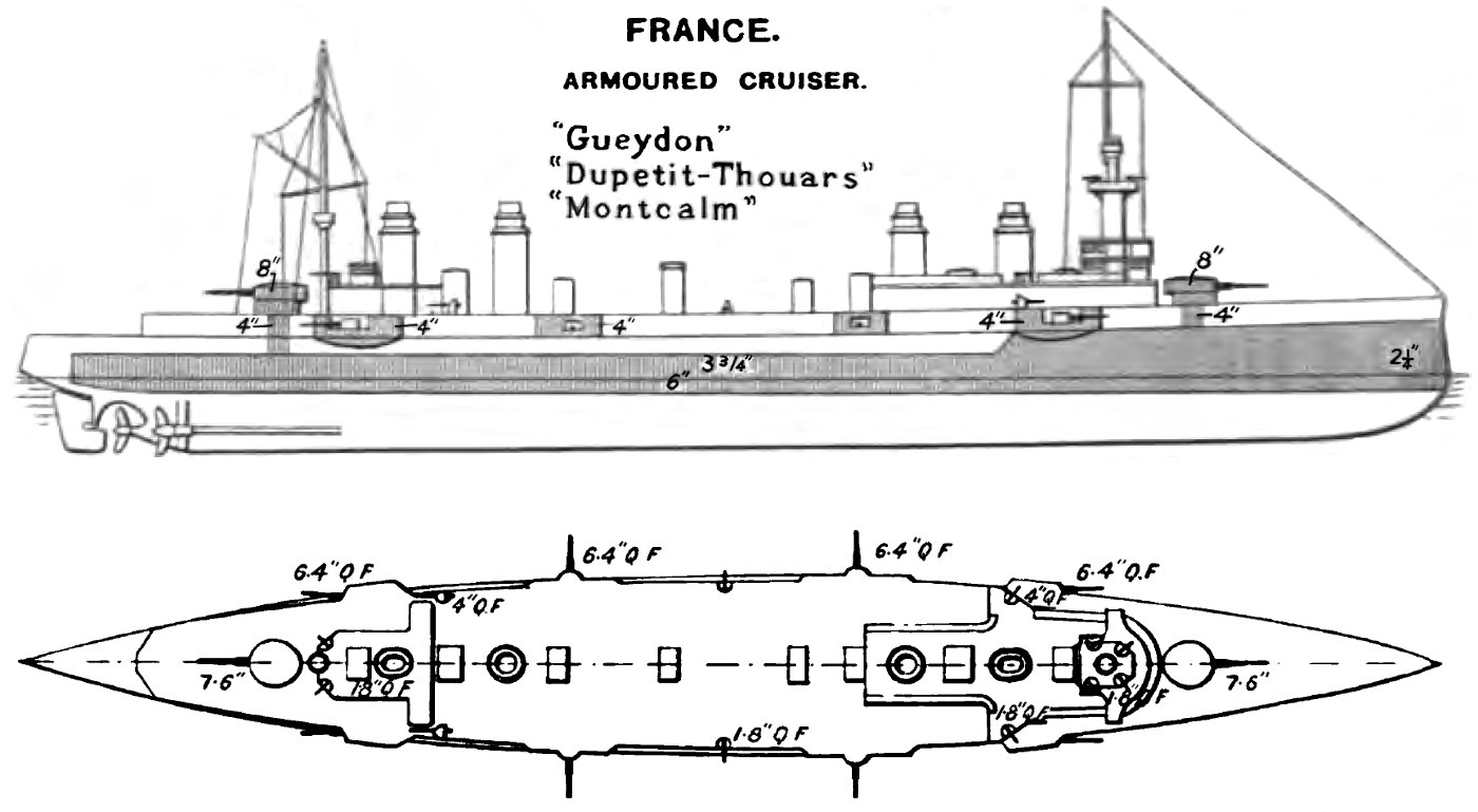 Right elevation and deck plan depicting French Gueydon class armoured cruiser. Top diagram (right elevation) shows armour thickness in inches. Bottom diagram (deck plan) shows gun sizes in inches.